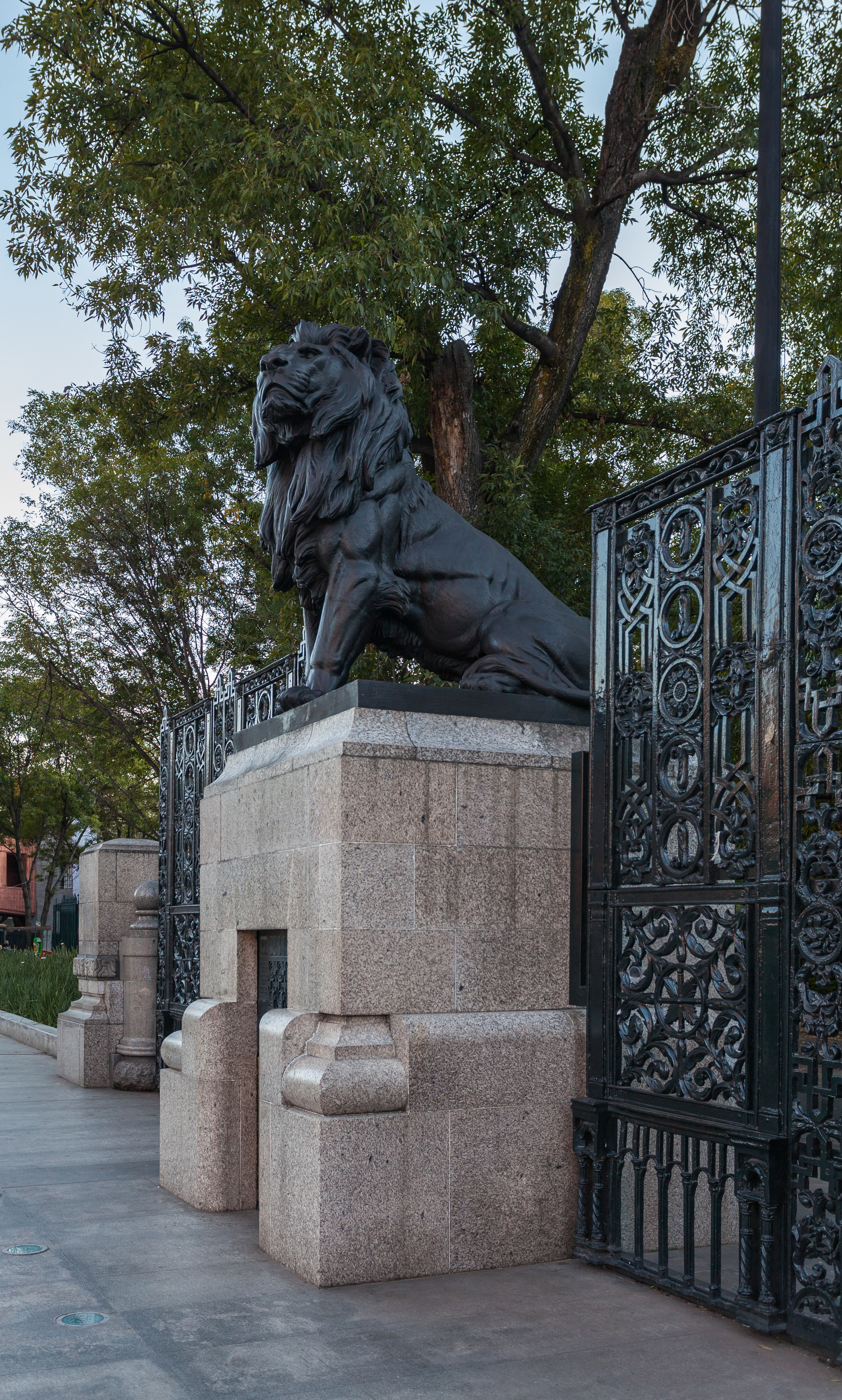 Chapultepec Park, Mexico City, Mexico